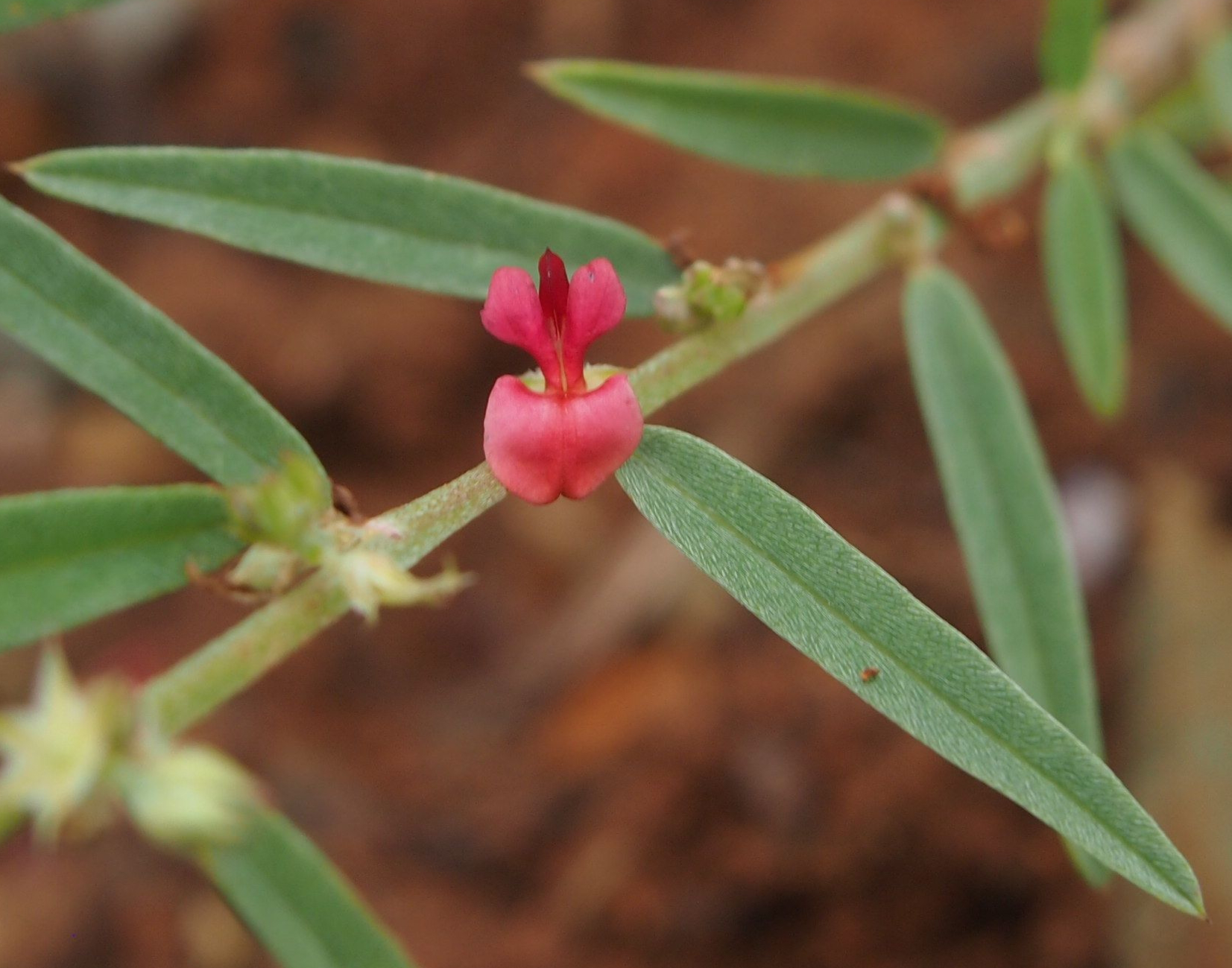 Indigofera linifolia